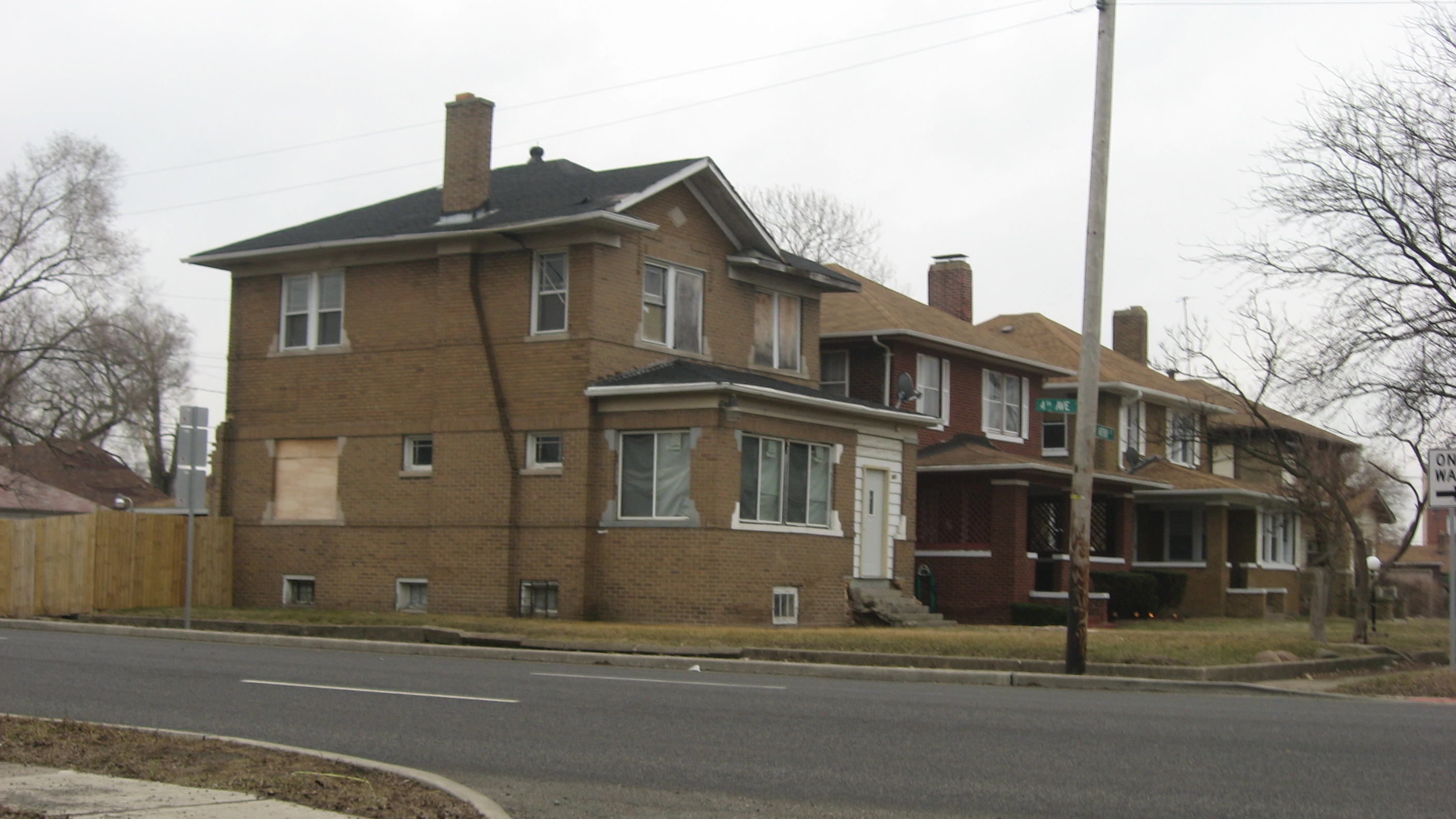 Houses on the western side of Arthur Street south of the Fourth Avenue (U.S. Routes 12/20) intersection in Gary, Indiana, United States. This neighborhood is part of the Eskilson Historic District, a historic district that is listed on the National Register of Historic Places.